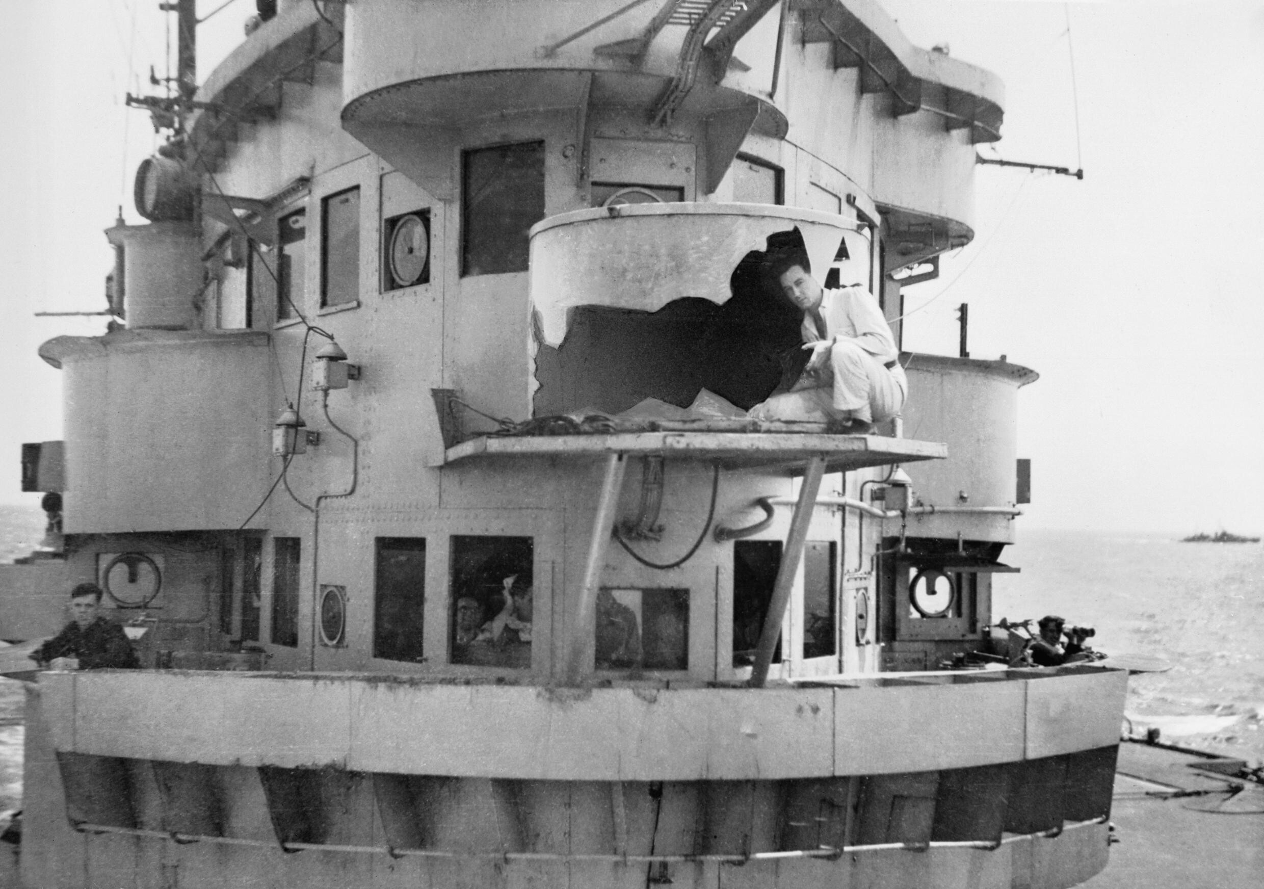 Kamikaze Attacks on Shipping: Inspecting damage to the bridge of HMS ILLUSTRIOUS caused by a Japanese 'Judy' single engine dive bomber on 6 April 1945. The plane passed just in front of the bridge about 9 feet from where the Commanding Officer, Captain C E Lambe, CB, CVO, RN, was standing and crashed into the sea.